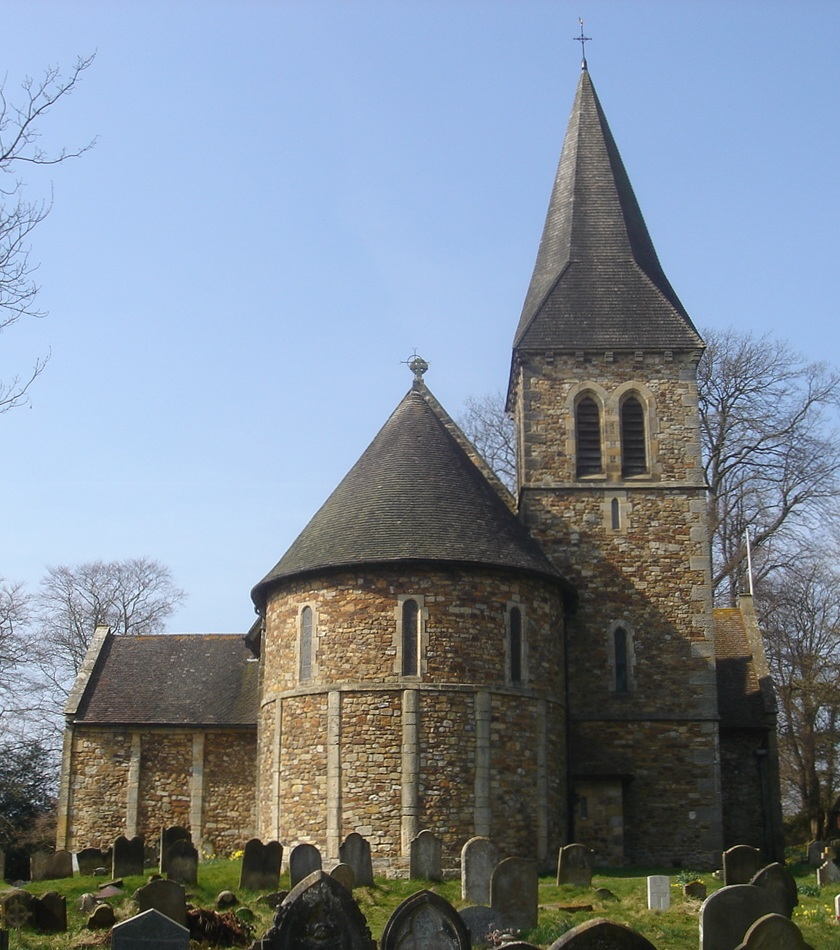 The apsidal chancel and spire at the liturgical east end of St Nicholas Church, Worth, Borough of Crawley, England. The 10th- or 11th-century parish church of Worth, originally a small village in the Mid Sussex District of West Sussex until it became part of Crawley. Listed at Grade I by English Heritage (IoE code 363409)